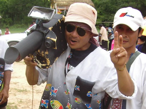 Cameraman (with fake camera) at village Rocket Festival salutes author, Pawyi Lee